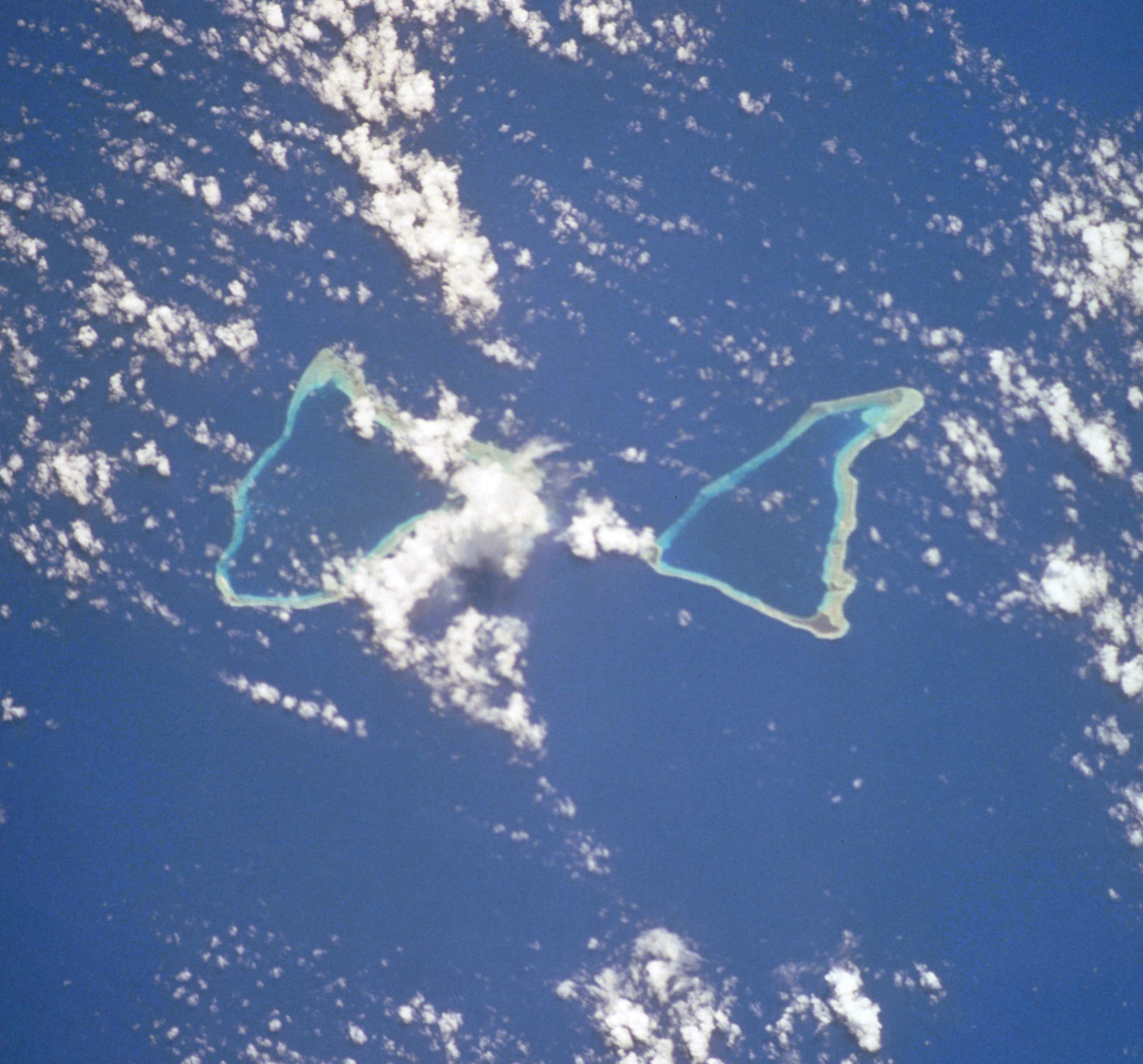 Toke & Utirik Atoll